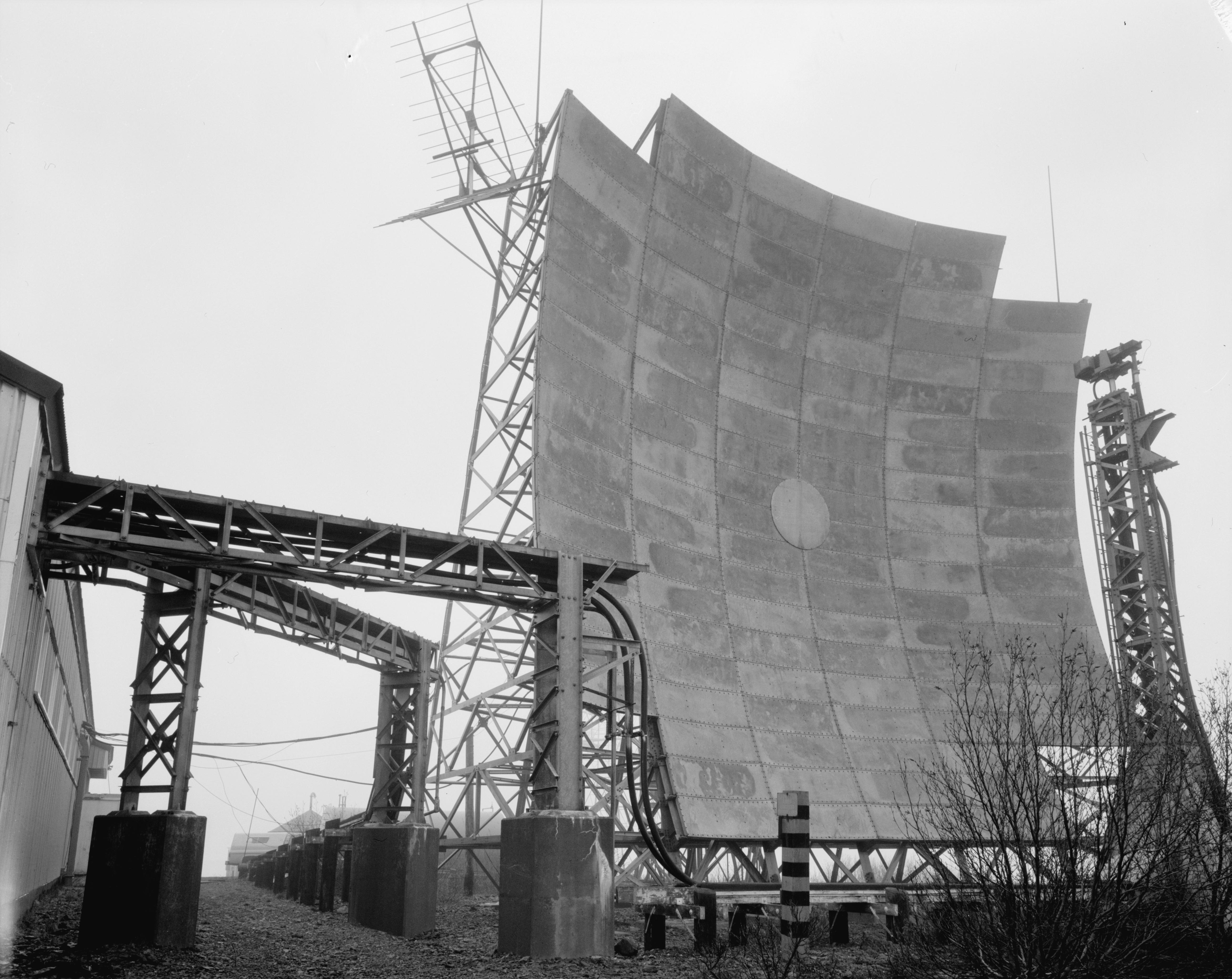 Parabolic antenna used in the White Alice Communication System built around 1958 in Alaska by Western Electric and the US Air Force, which provided telephone communication between isolated communities. It was a tropospheric scatter system; large antennas like this beamed 50 kW signals at about 900 MHz at a low angle into the horizon, where they scattered off the tropopause, with a tiny fraction returning to Earth beyond the horizon. Looking East. The tower at right supports the feed horn for the antenna. The system became obsolete with the advent of communications satellites in the 1960s.